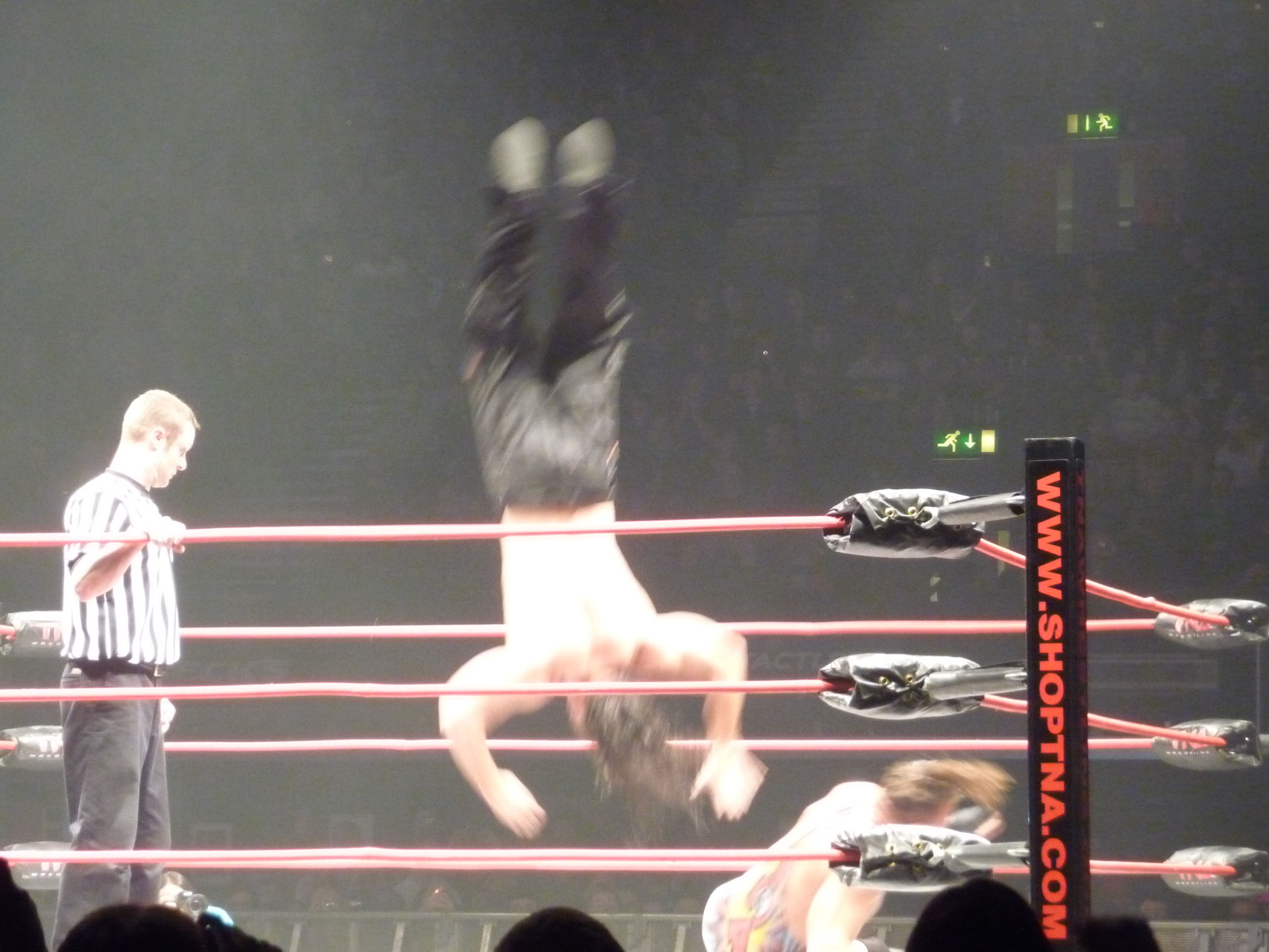 Matt Hardy vs Rob Van Dam. Hardy performing a moonsault.